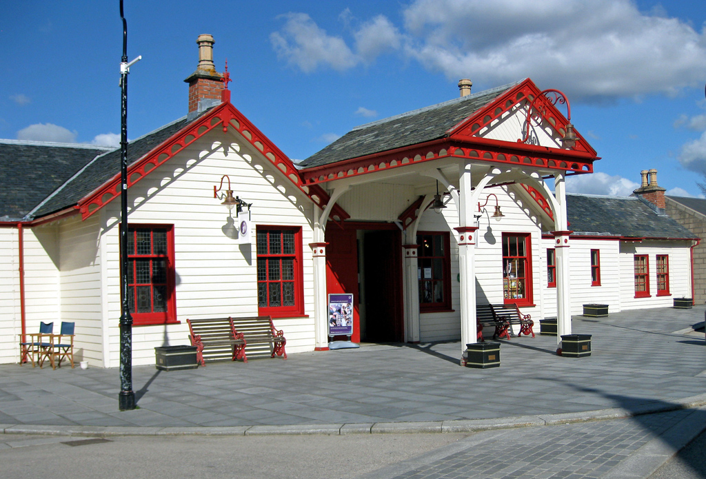 Ballater visitor centre, previously the railway station